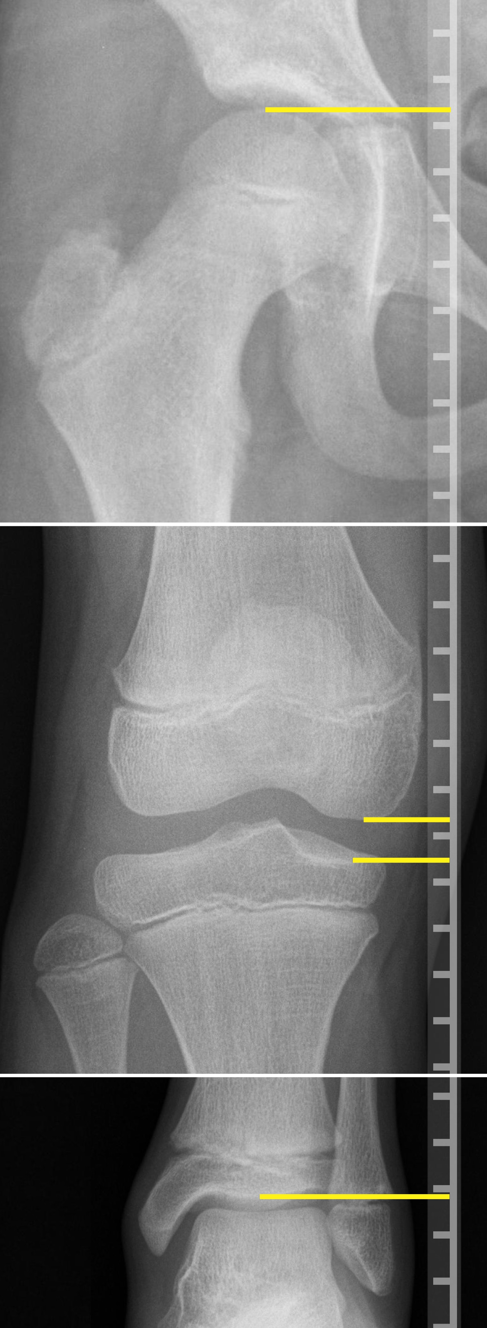 Leg length measurement on X-rays (female at 9 years), generally as part of the workup for unequal leg length. Measuring points in this example: Femur length: The superior aspect of the femoral head and the distal portion of the medial femoral condyle. Tibial length: The medial tibial plateau and the tibial plafond